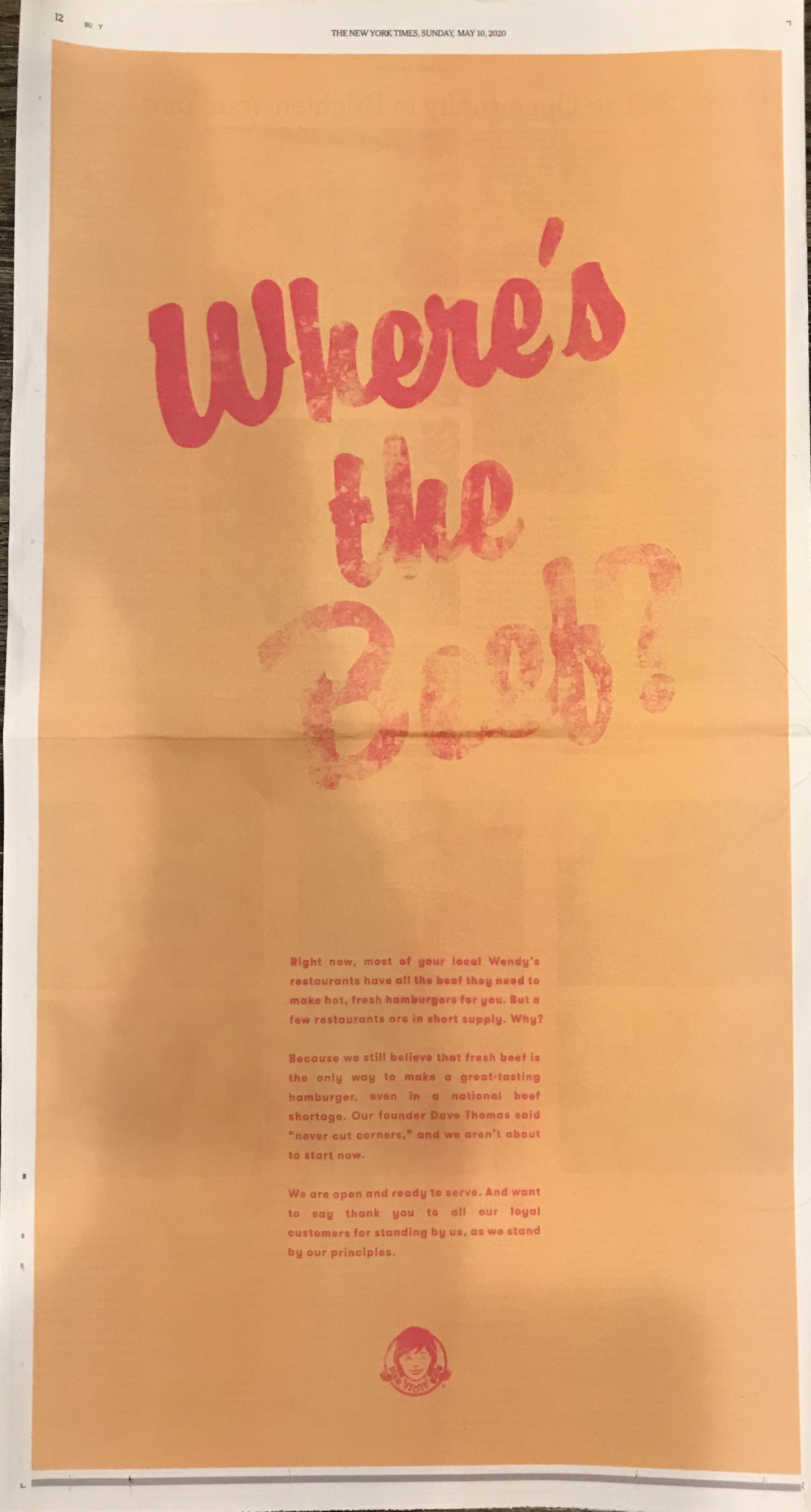 Wendy's ad during COVID-19 pandemic beef shortage